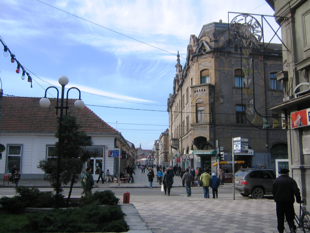 Lugoj city center, Romania